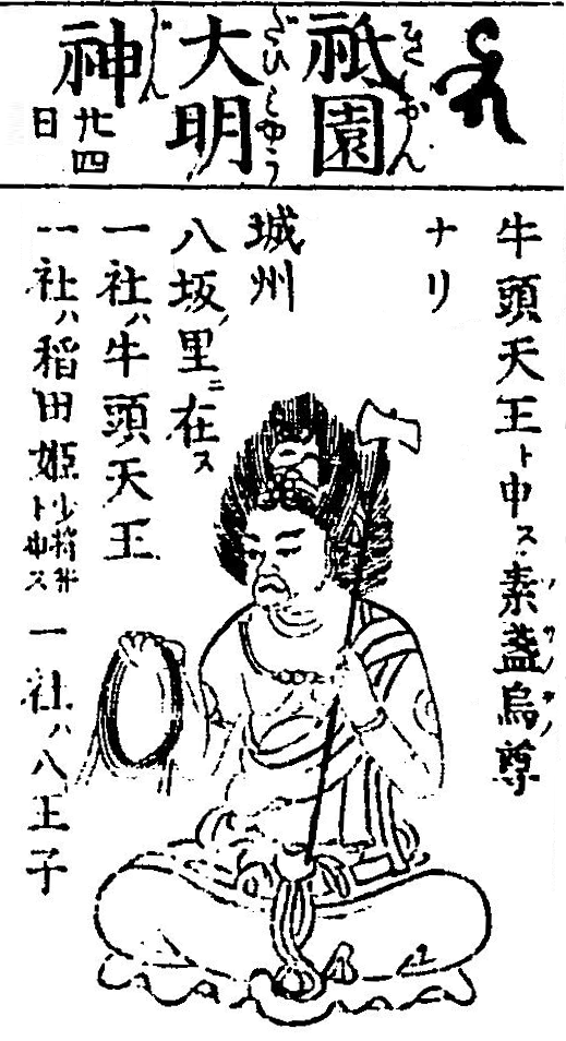 Gion Daimyojin, as one of Buddhist deities.